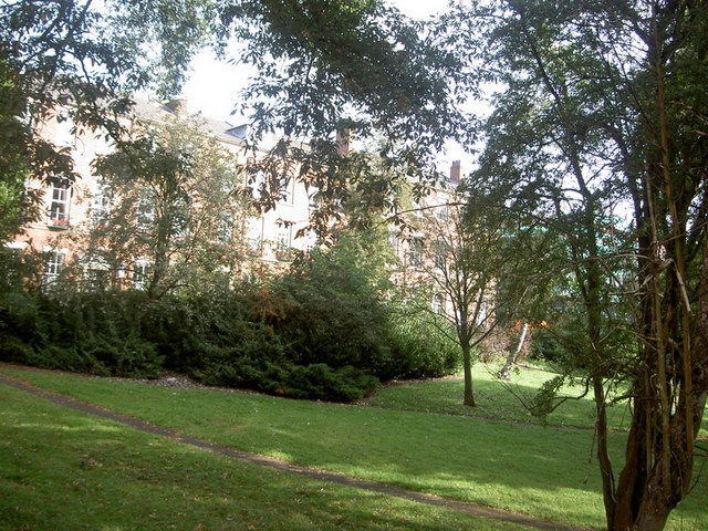 Winkley Square - central gardens. In this well-parked city, the gardens of this Georgian square provide a quiet haven in the very heart of the commercial centre. (Part of a circular walk around Preston - continues at 557124.)